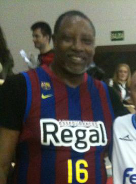 Audie Norries with me and a friend